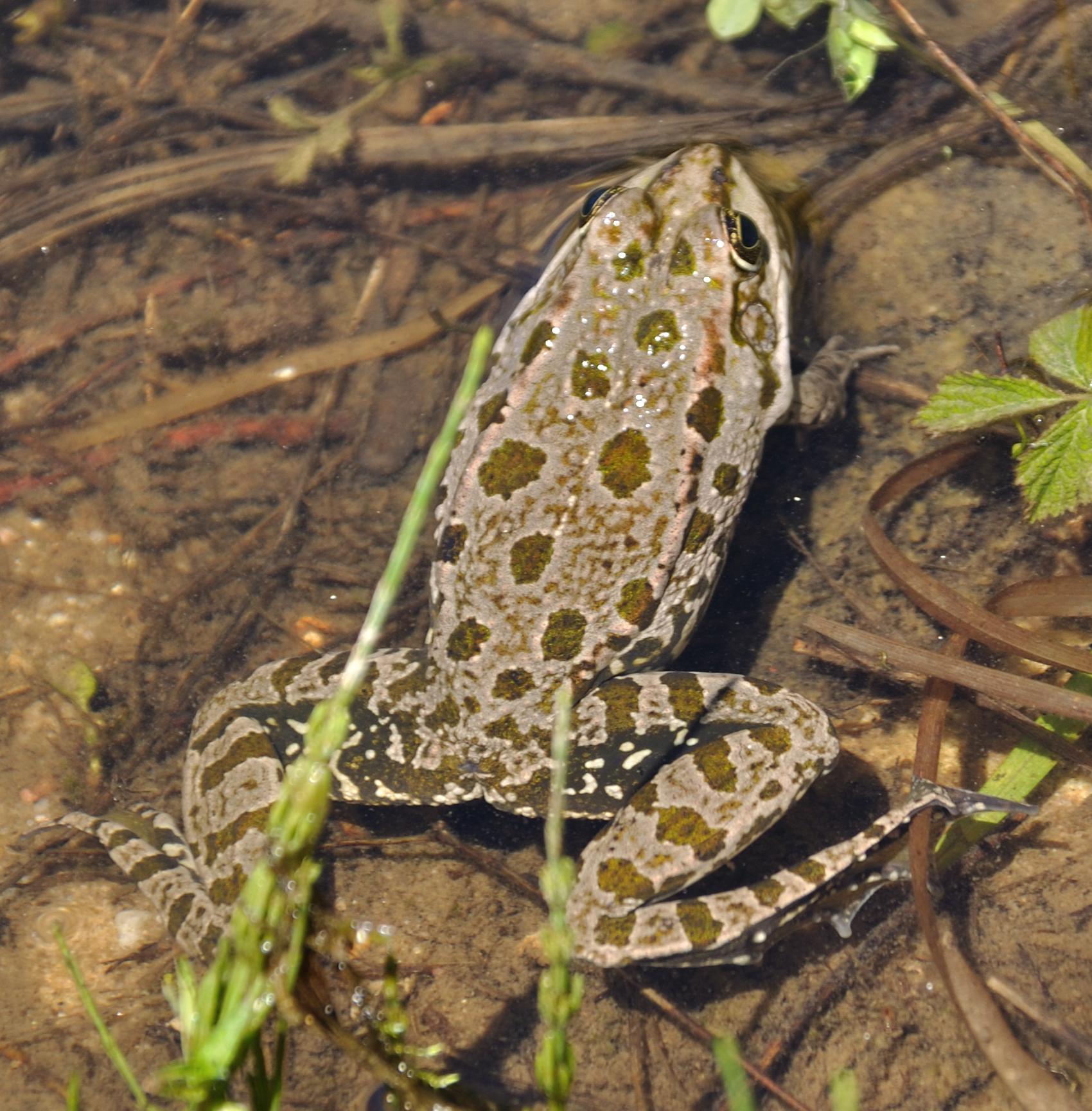 Marsh Frog (Pelophylax ridibundus) near the old airstrip, Frankfurt, Germany.